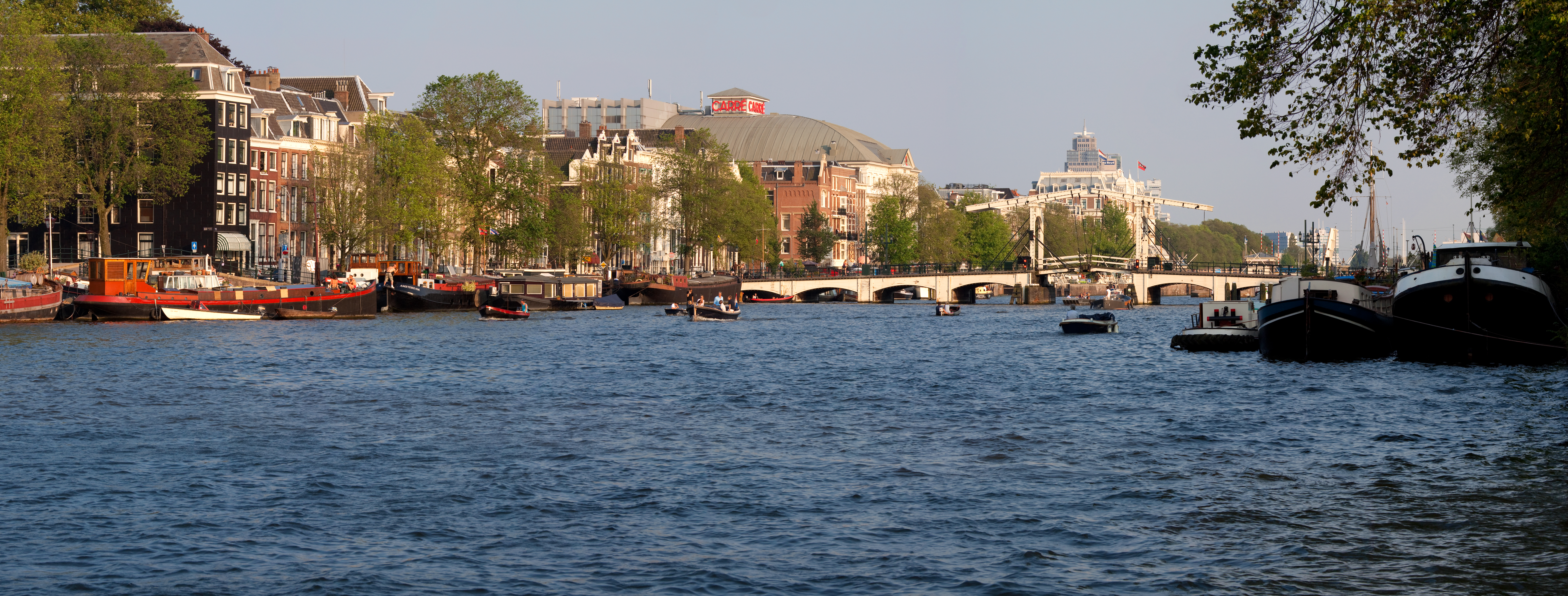 A panorama of the river Amstel in the city's centre of Amsterdam, the Netherlands. Visible are the famous Skinny Bridge and the theatre Carre.